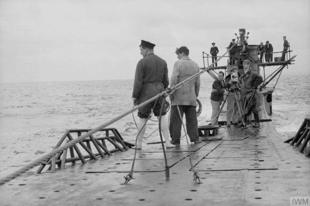 Filming of the British wartime propaganda film "Close Quarters" aboard T class submarine HMS Tribune. She was called HMS Tyrant in the film. Two members of the ship's crew await their cue. Standing at the camera, left to right, are: Bill Chaston (camera operator), Jonah Jones (cameraman) and Jack Lee (director). Officers stand on the camera platform which has been built around the conning tower to watch the proceedings.